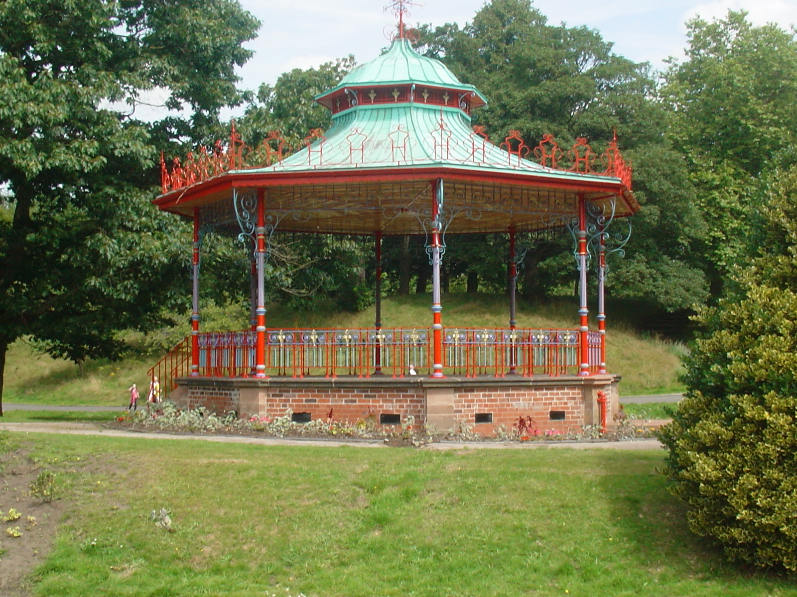 Bandstand at Sefton Park, Liverpool, England. This bandstand can be seen in the episode "The Mazarin Stone" (1994) from the tv series The Memoirs of Sherlock Holmes.